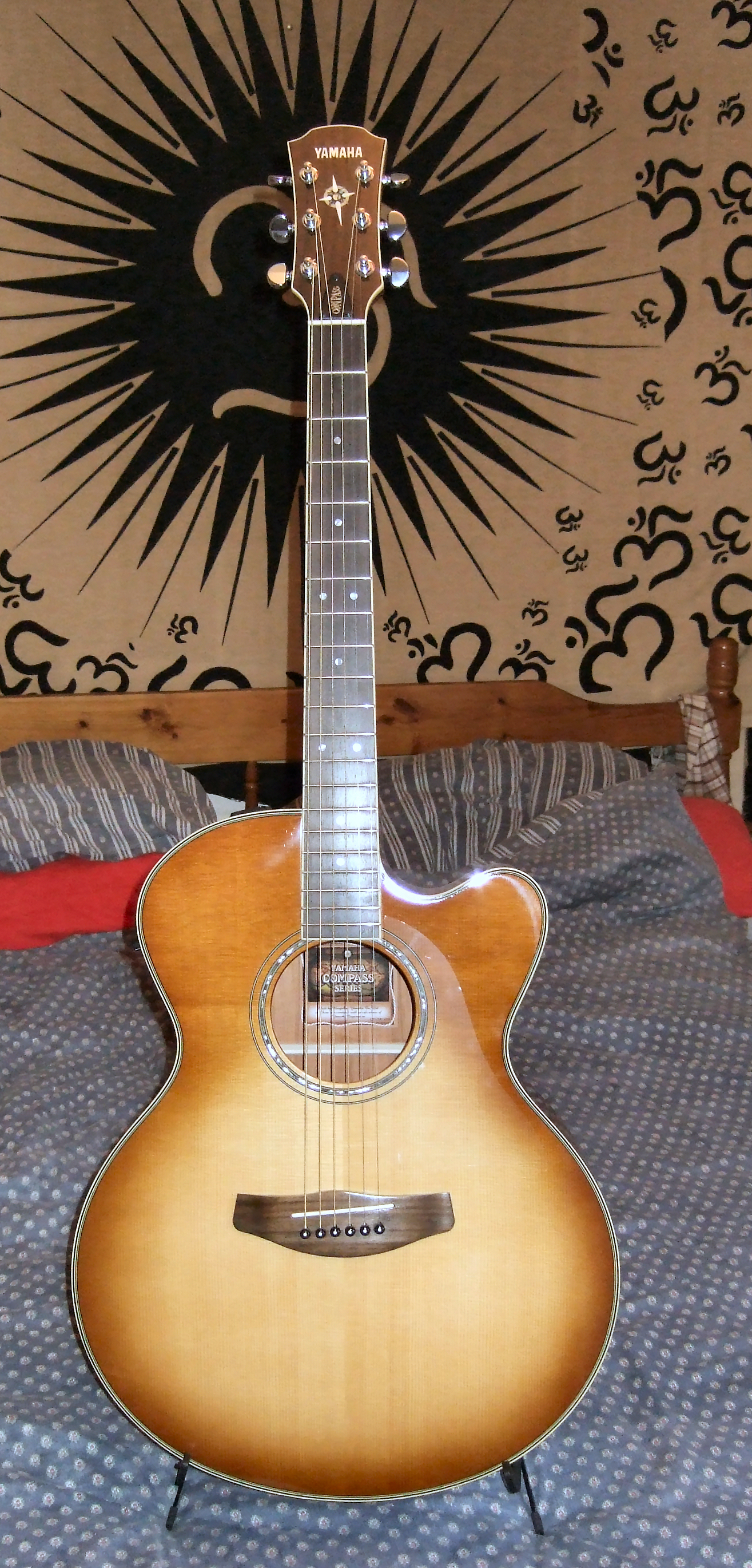 Yamaha CPX700 There is a bit of a story to this, I bought a guitar on ebay and have been playing it for about 4 weeks, I took it to 4 shops to do a set up for me, but they all wanted 2 or more weeks to set it up and from £100 to set it up, so I took a trip to the coast today.. and traded it out for this, which plays and sounds so much nicer . Yamaha CPX 700 electro acoustic